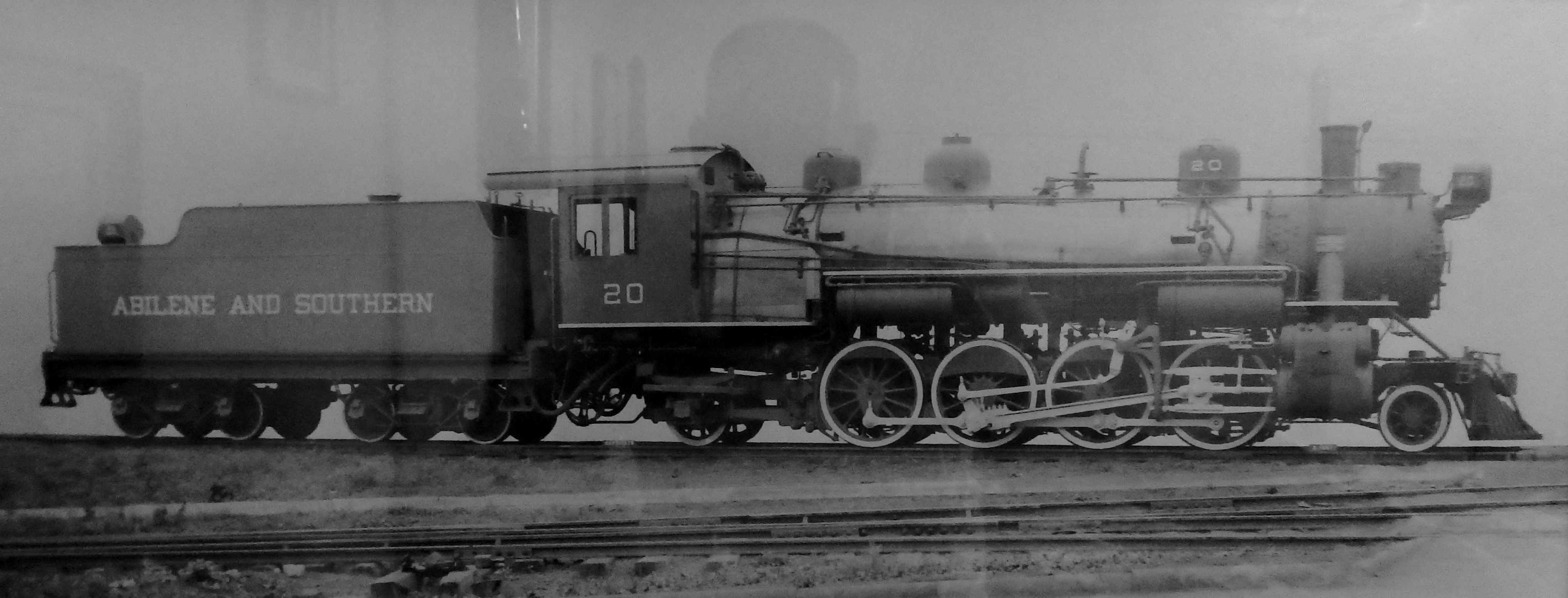 This is a Fair Use, Public Domain file of Engine 20 of the Abilene and Southern Railway.